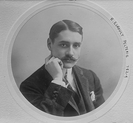 Robert Esnault-Pelterie (1881-1957), pioneering French aircraft designer and spaceflight theorist